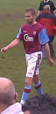 Aston Villa Resereves Vs. Manchester United Reserves at The Lamb Ground in Tamworth, Staffordshire.